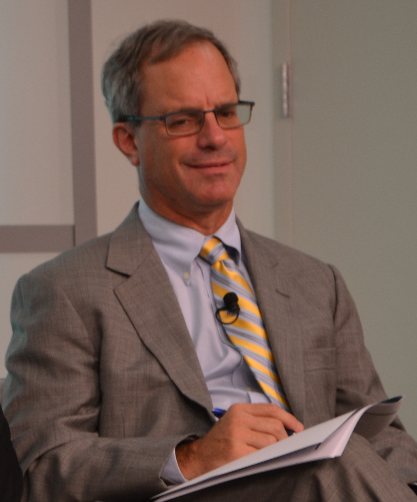 John Rizzo, Senior Counsel, Steptoe and Johnson LLP, Former Office of the General Counsel, Central Intelligence Agency; Peter Swire, Cybersecurity Fellow, New America, Nancy J. and Lawrence P. Huang Professor of Law and Ethics, Georgia Tech's Scheller College of Business, Senior Counsel, Alston & Bird LLP